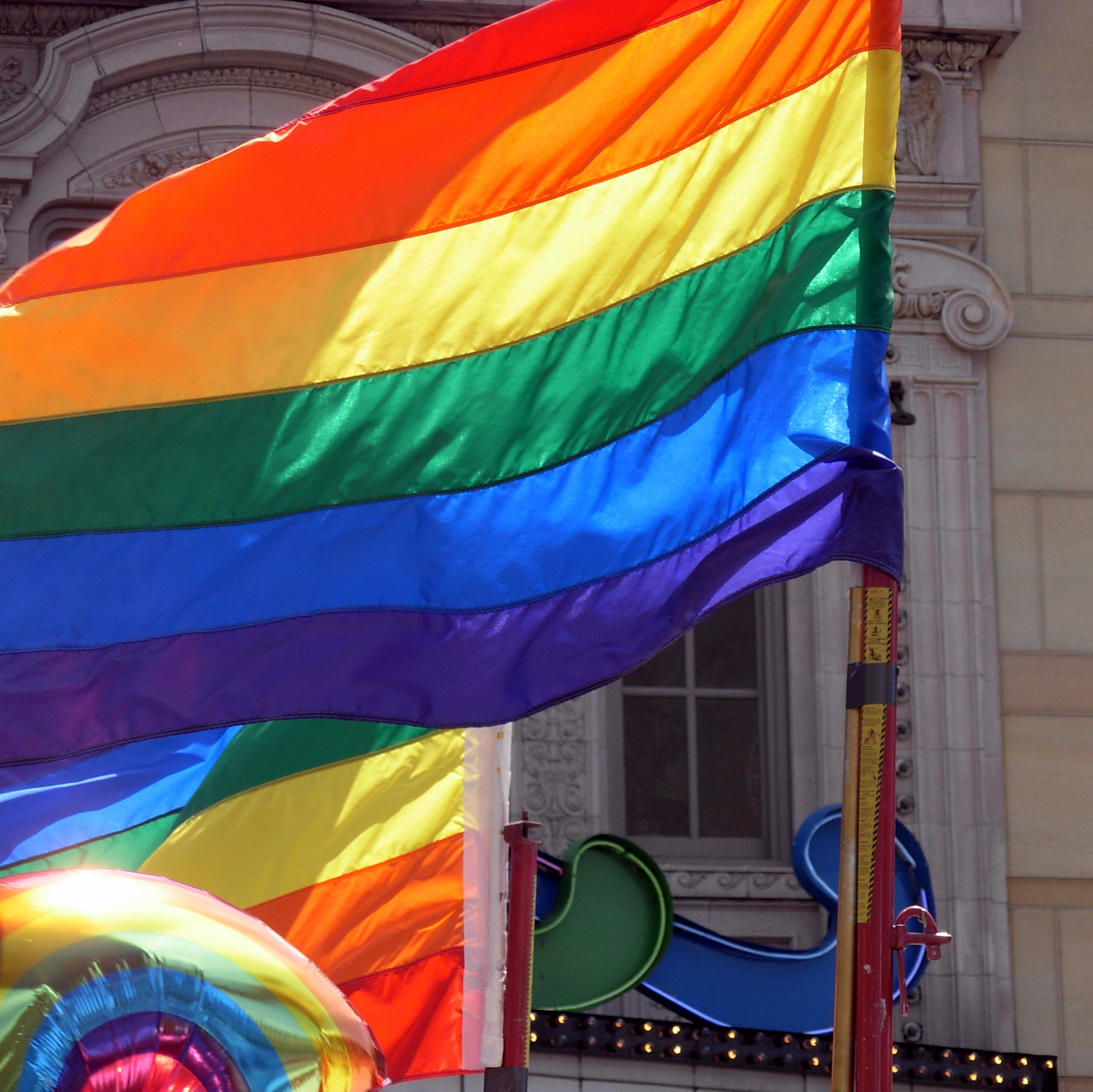 Rainbow flags at the end of the gay, lesbian, bisexual, transgender pride parade passing in front of the State Theatre on Hennepin Avenue in downtown Minneapolis, Minnesota.